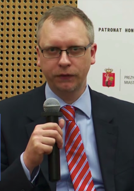 “From Russia with lies”. Is this the new hit that is hitting Europe? Debate during "World in focus" conference POLIN Museum of the History of Polish Jews June 3rd, 2016